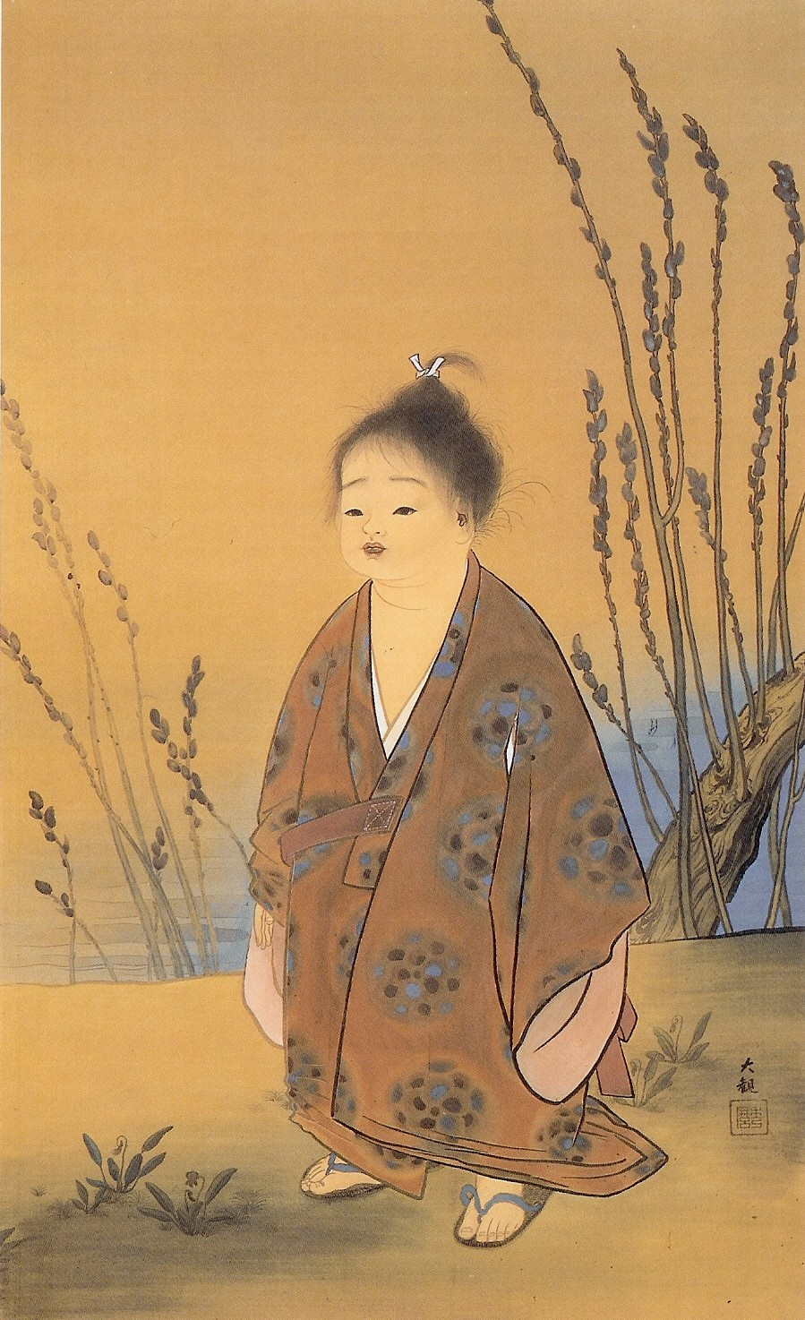 Yokoyama Taikan "Muga"